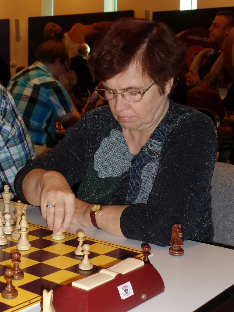 Grażyna Szmacińska playing in the Independence Tournament in Warsaw (Poland)